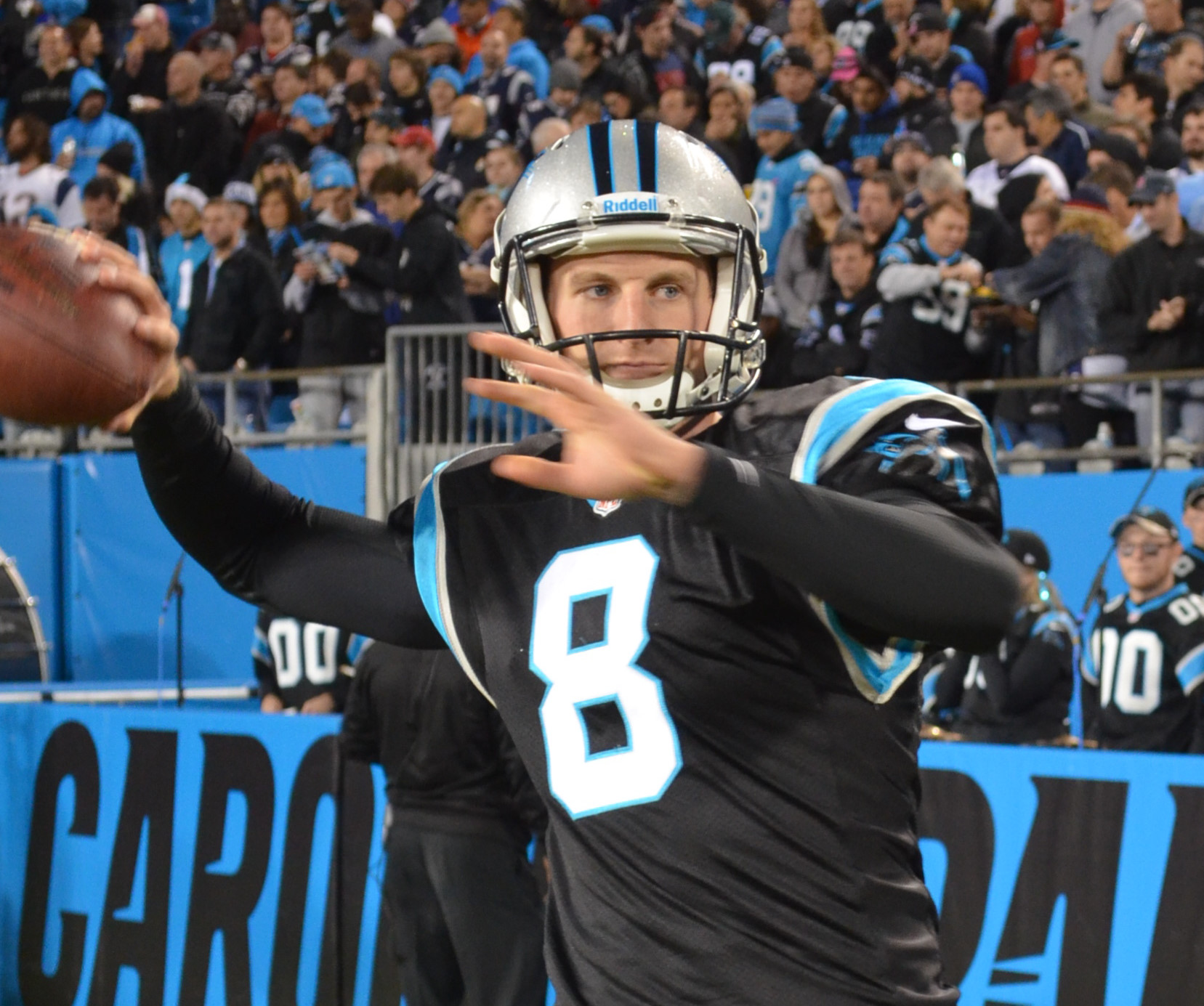 Carolina Panthers punter, Brad Nortman, in a game against the New England Patriots on November 18, 2013.